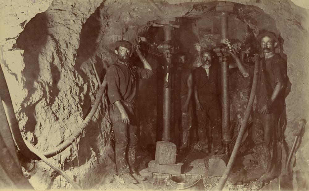 Miners working underground in the Mount Morgan Mine, 1903